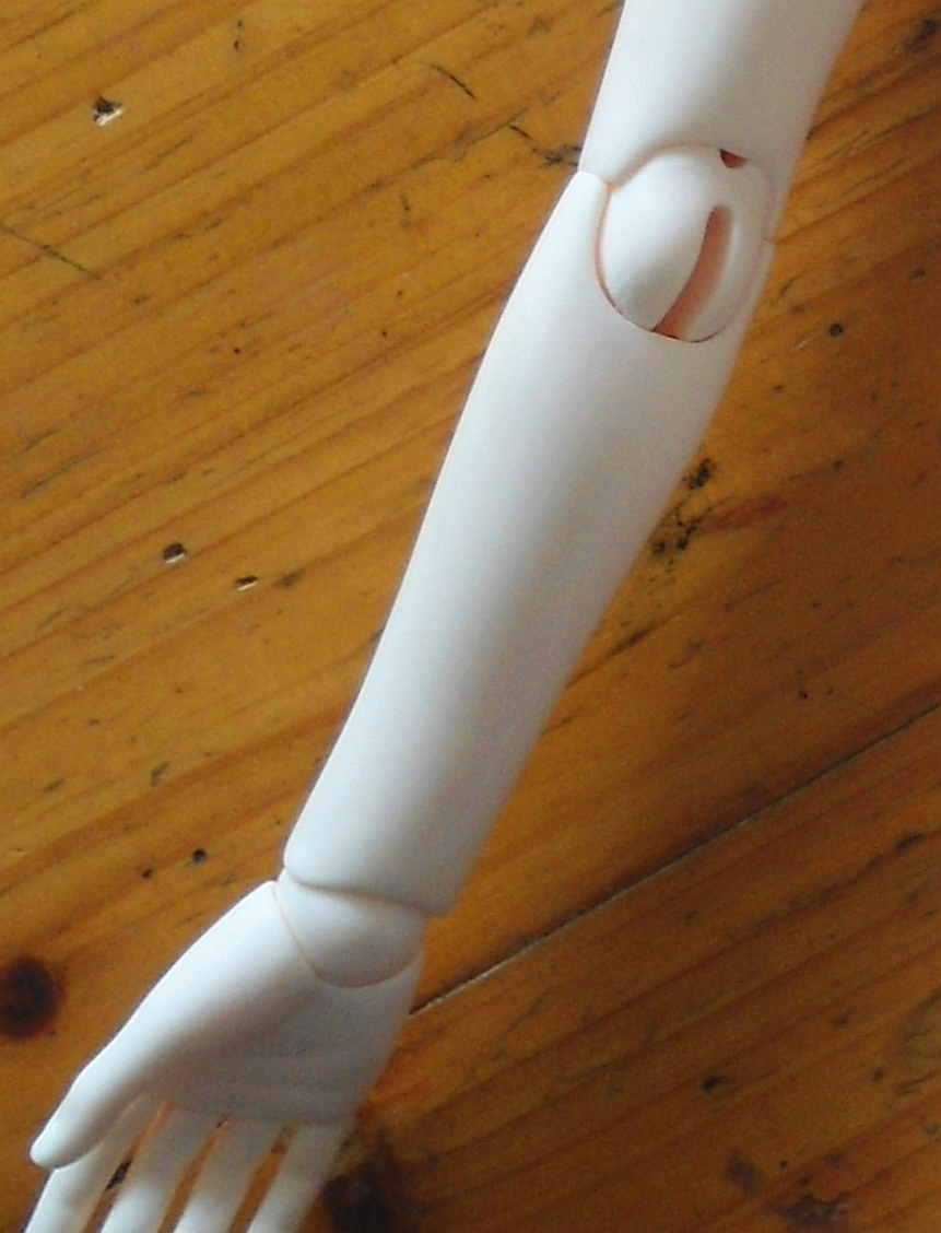 Elbow and wrist joint of male ball-jointed doll manufactured in China and purchased online in 2013.